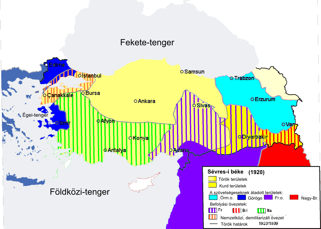 Treaty of Sévres, Hungarian map, derived from Image:TreatyOfSevres (corrected).PNG using InkScape.